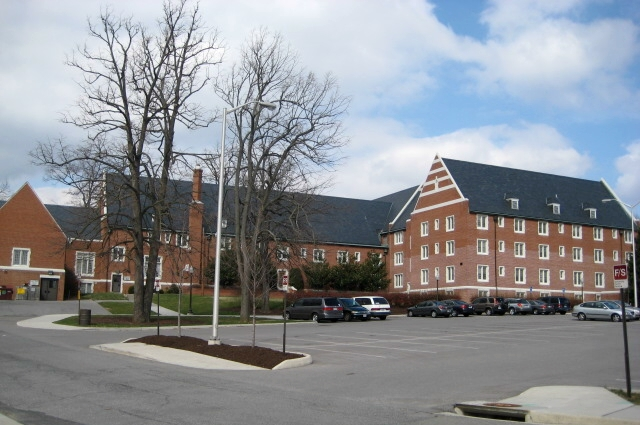 A Picture of Hillcrest (back)